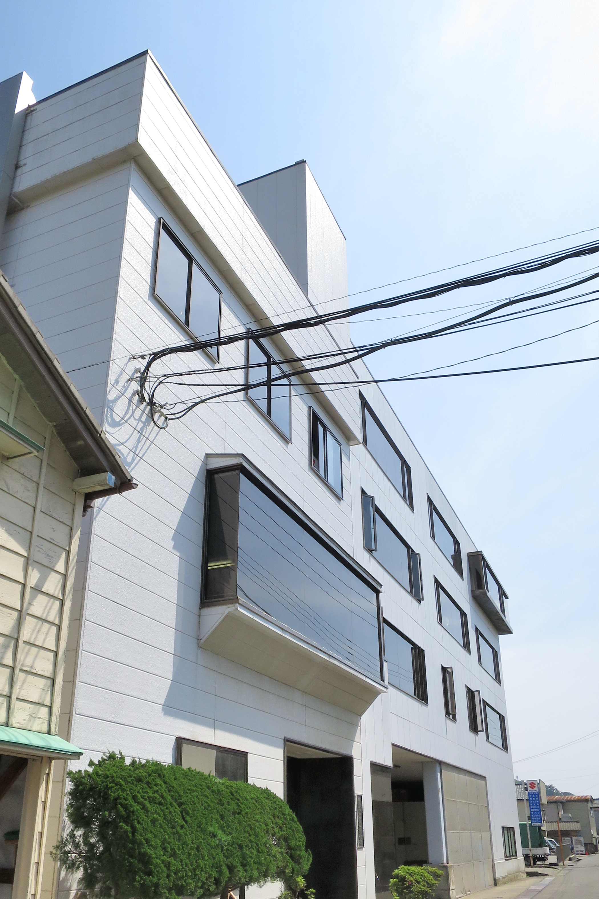 Photograph of Kakujoe Gyorui Headquarters exterior. address 9772-20 Teradomarishimoaramachi, Nagaoka City, Niigata Prefecture, Japan photo date and time 13:59 May 29, 2015